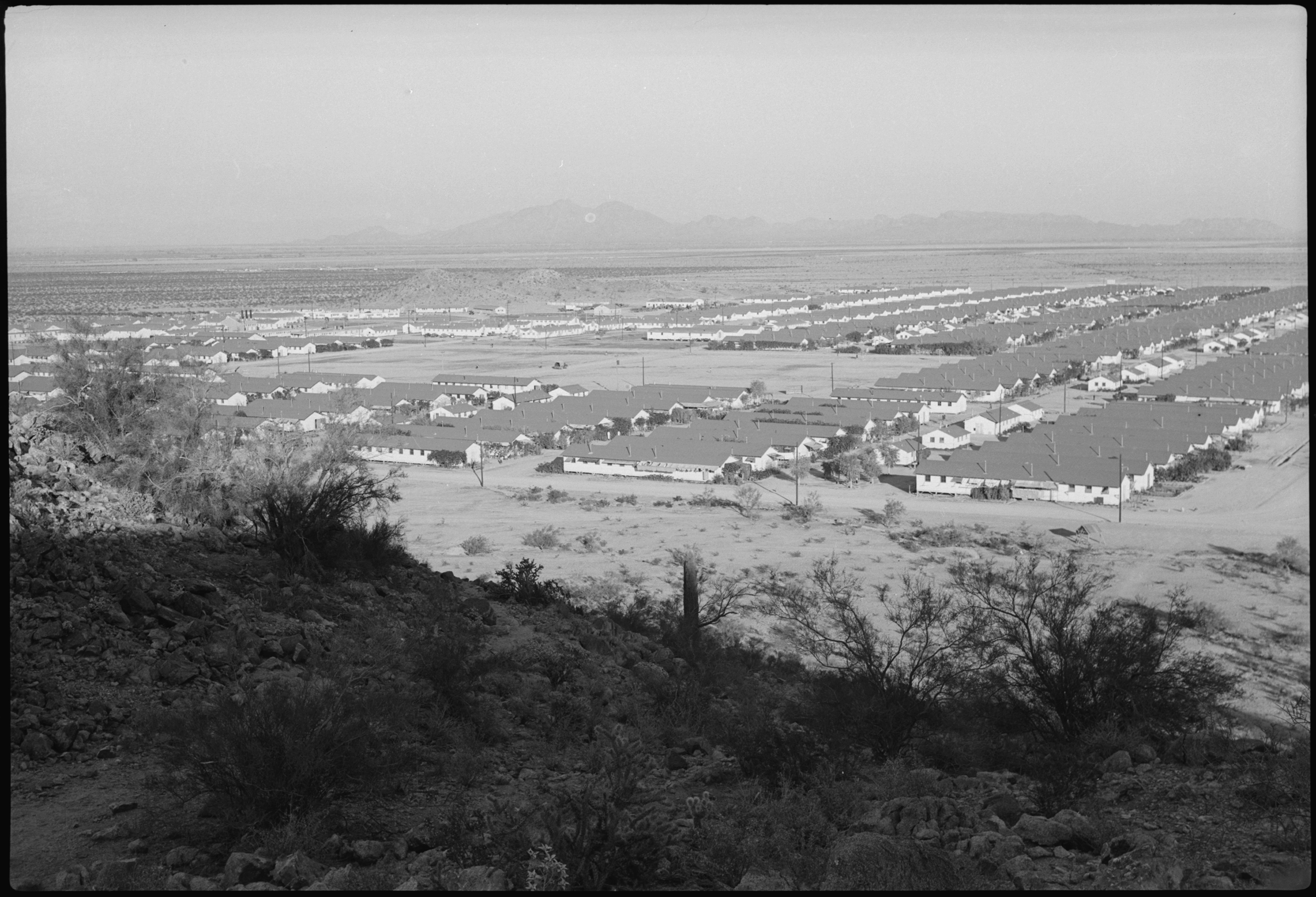 Scope and content: The full caption for this photograph reads: Gila River Relocation Center, Rivers, Arizona. Part of view of Butte camp looking towards block 59-72-74 and hospital in far distance.